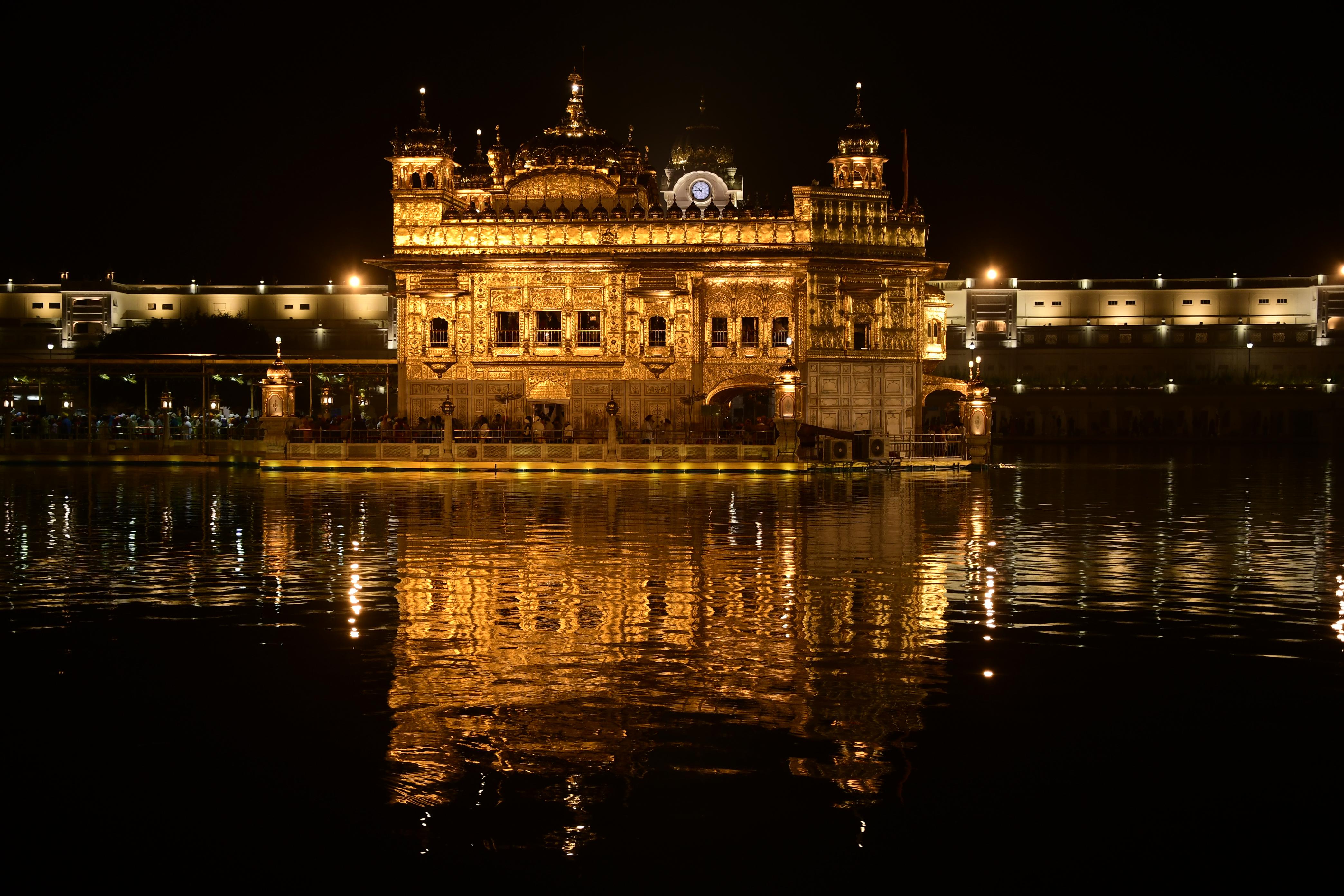 The Golden Temple, also known as Harmandir Sahib, meaning "abode of god" or Darbār Sahib, meaning "exalted court", is a Gurdwara located in the city of Amritsar, Punjab, India